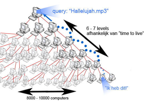 A diagram that shows how Gnutella works.